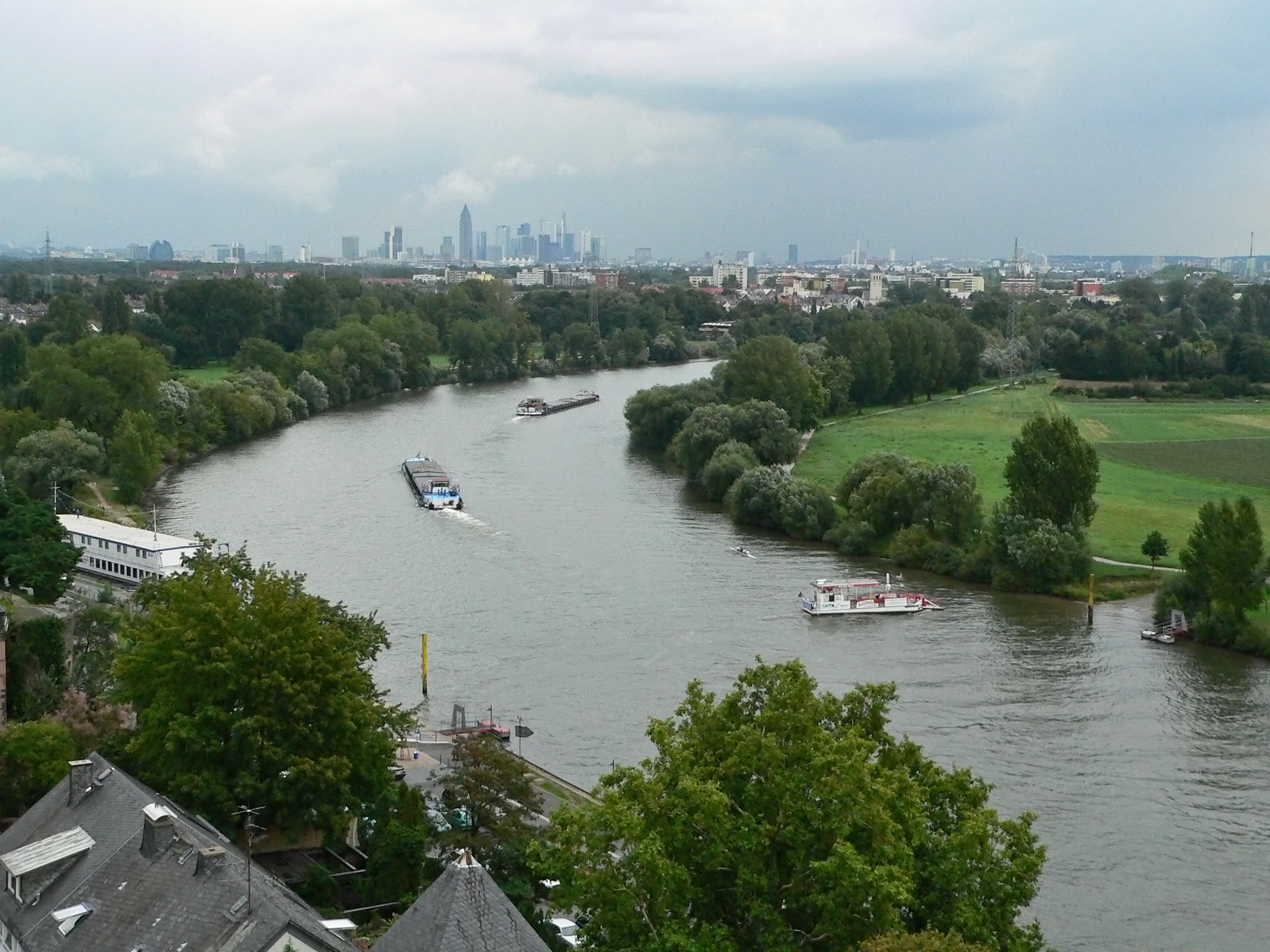 The Main River in Frankfurt-Höchst